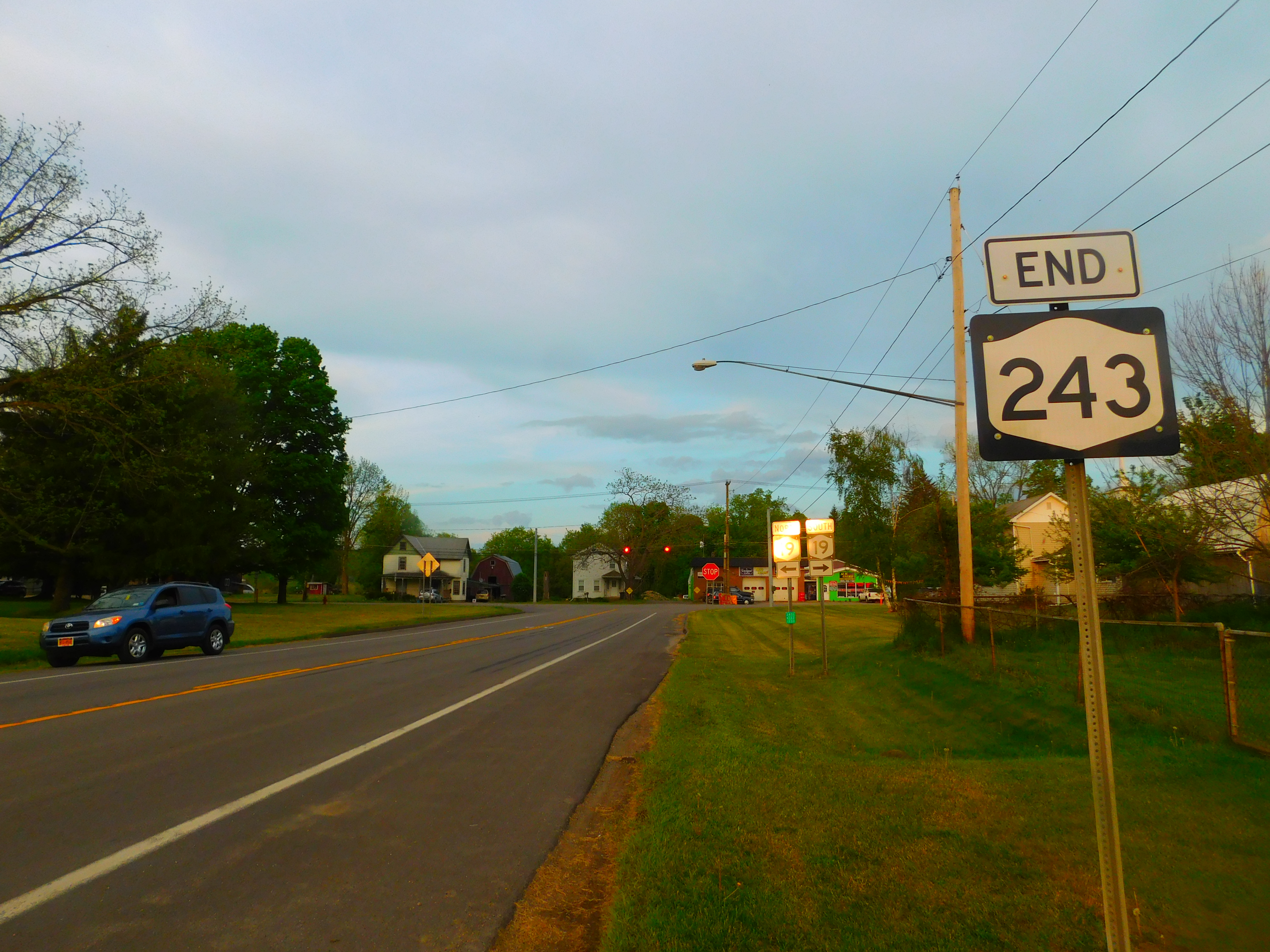 New York State Route 243 in Caneadea, New York.